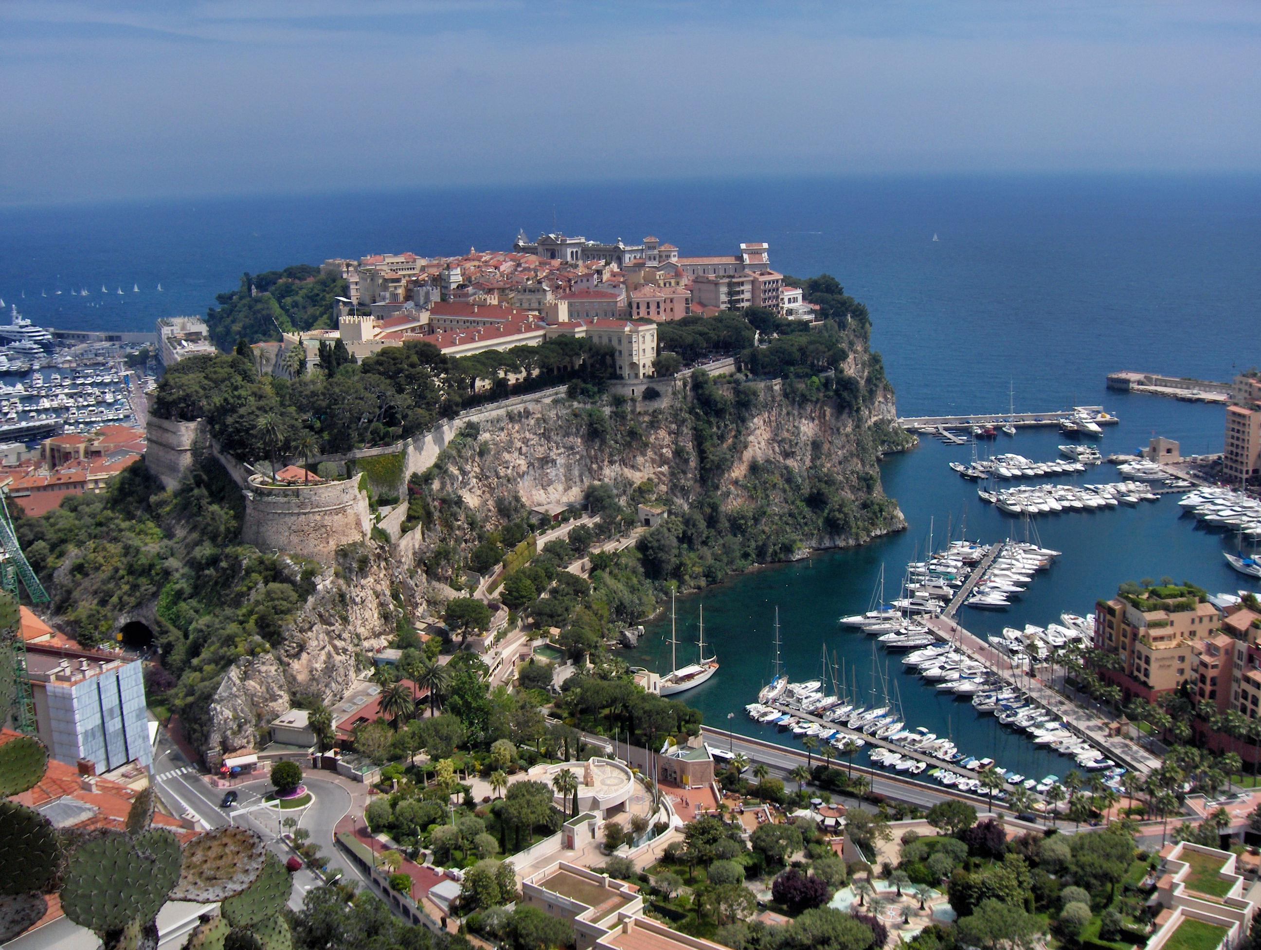 Palace and harbour of Fontvielle; Monaco-Ville, Monaco